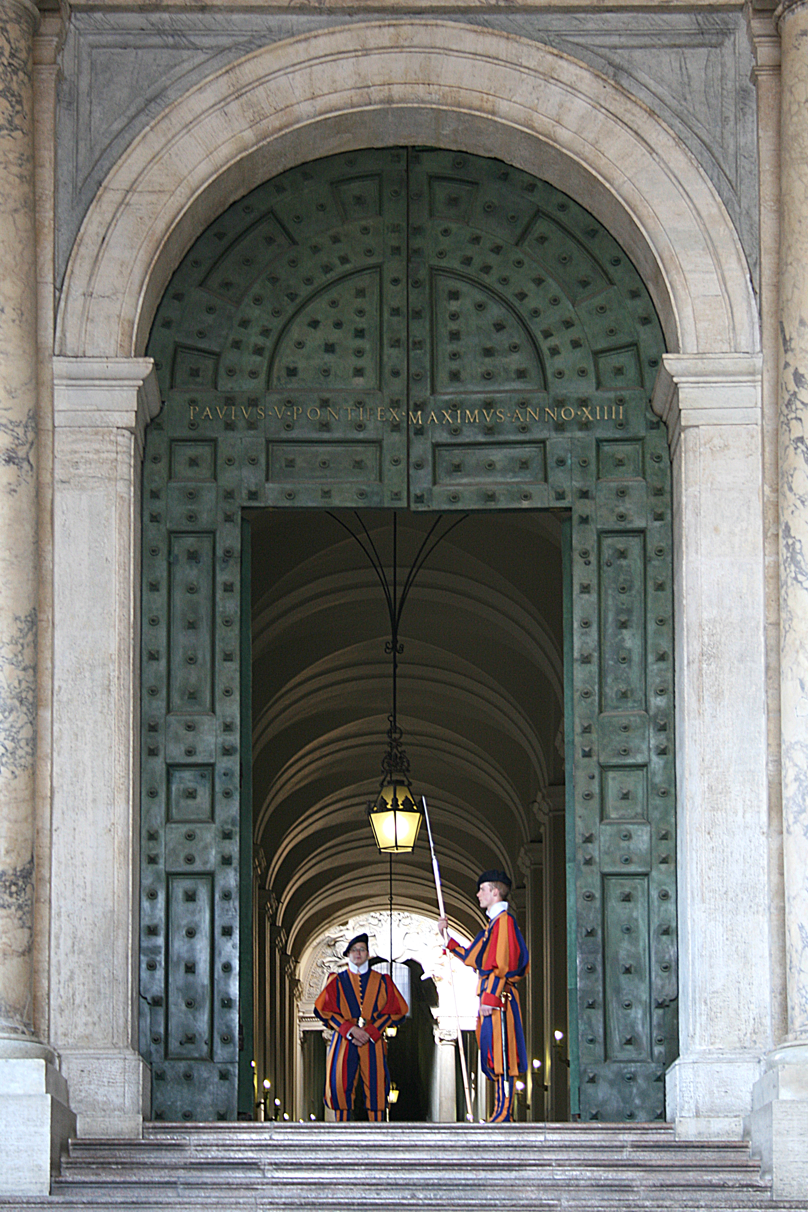 Swiss guards at the entrance of the Vatican Apostolic Palace.